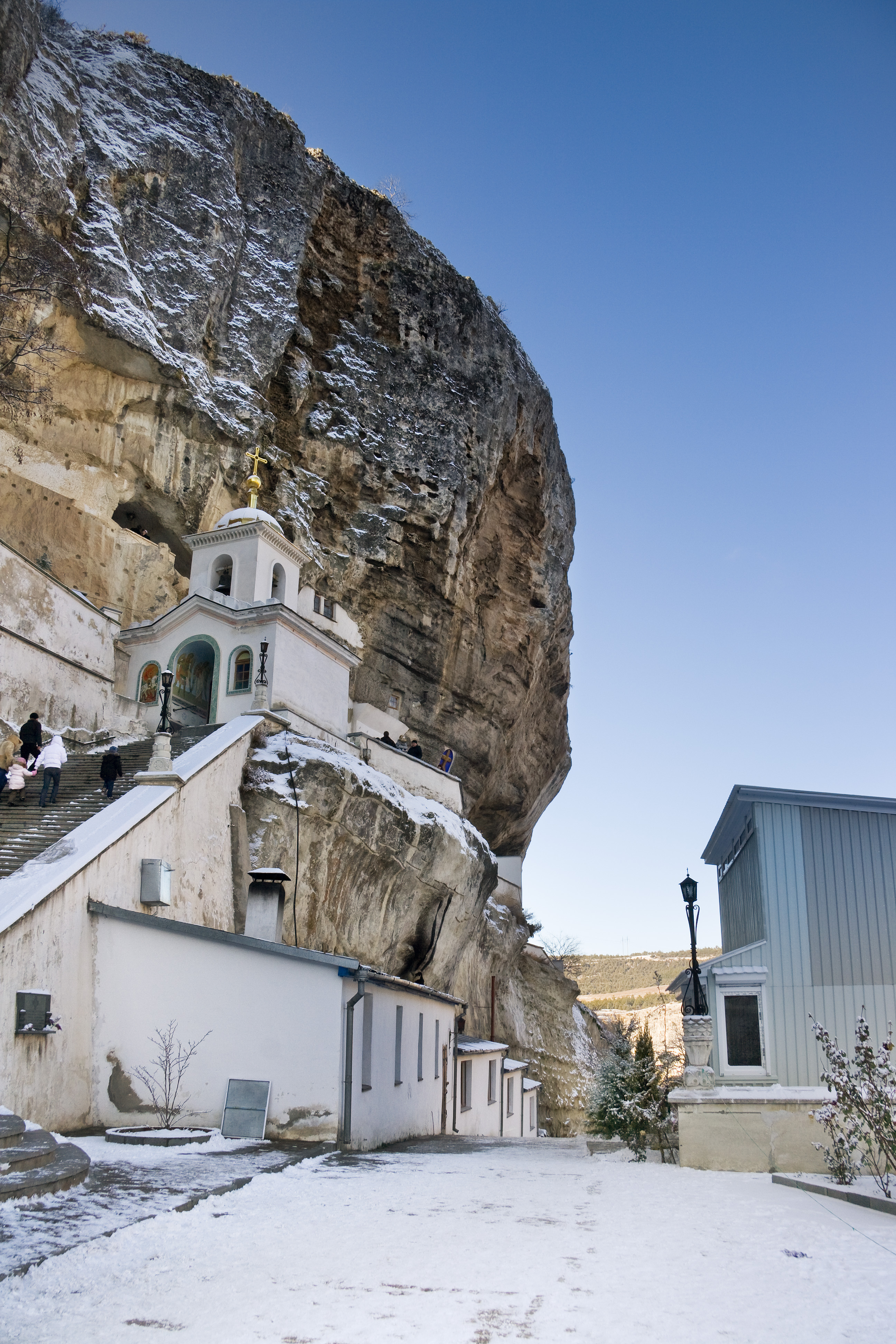 Uspensky Cave Monastery, Bakhchisaray, Crimea